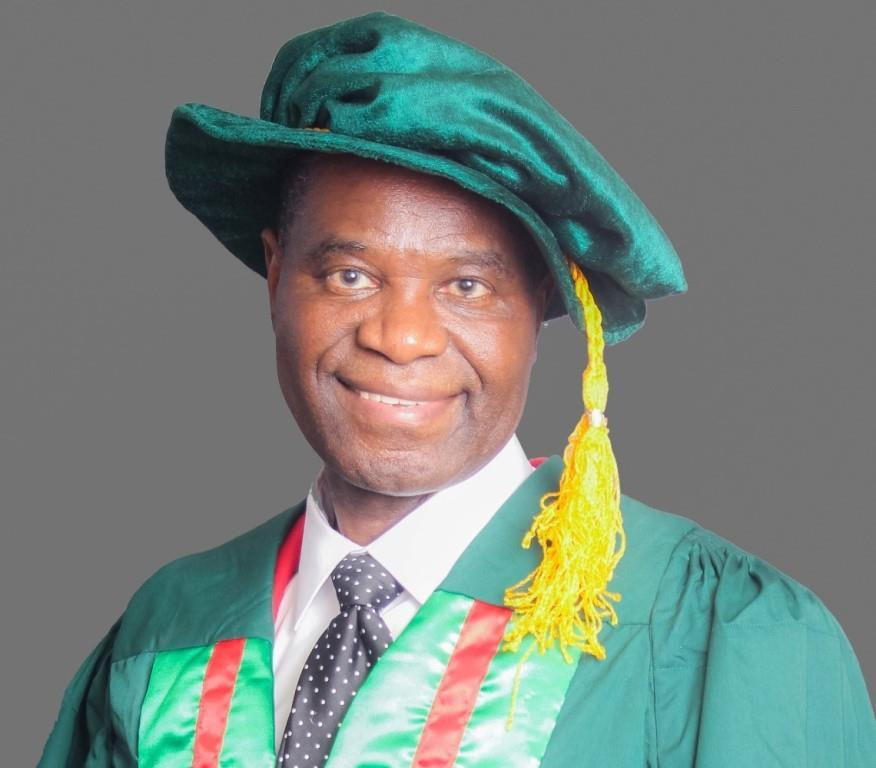 Distinguished University Professor at Chicago State University